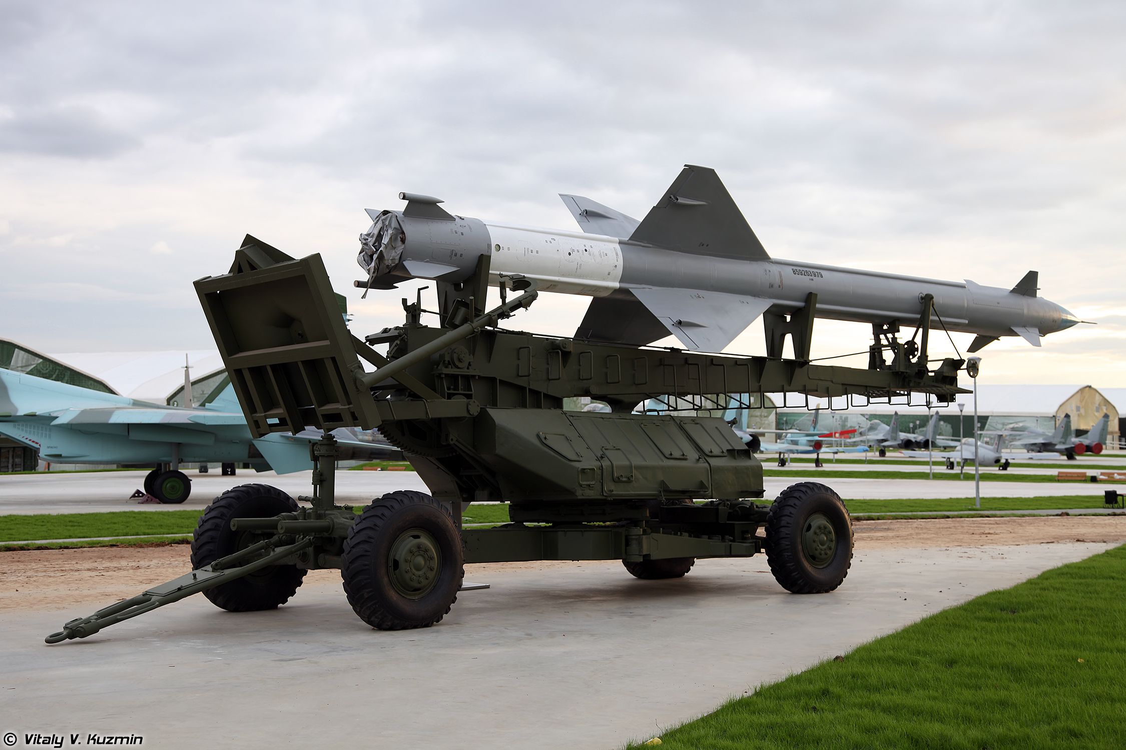 S-25 system with V-300 SAM - Park Patriot